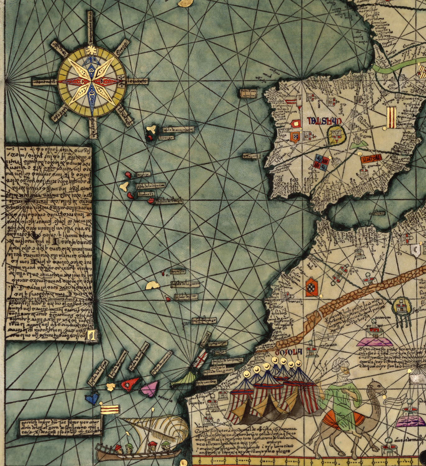 Map of the western islands. Catalan Atlas reproduction.